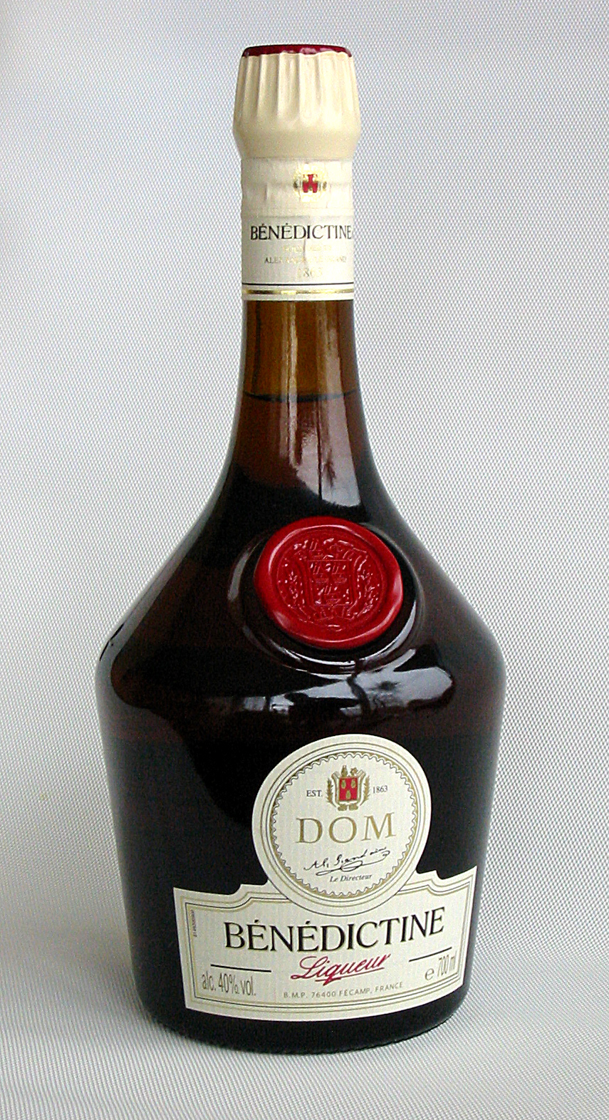 70 cl bottle of Bénédictine